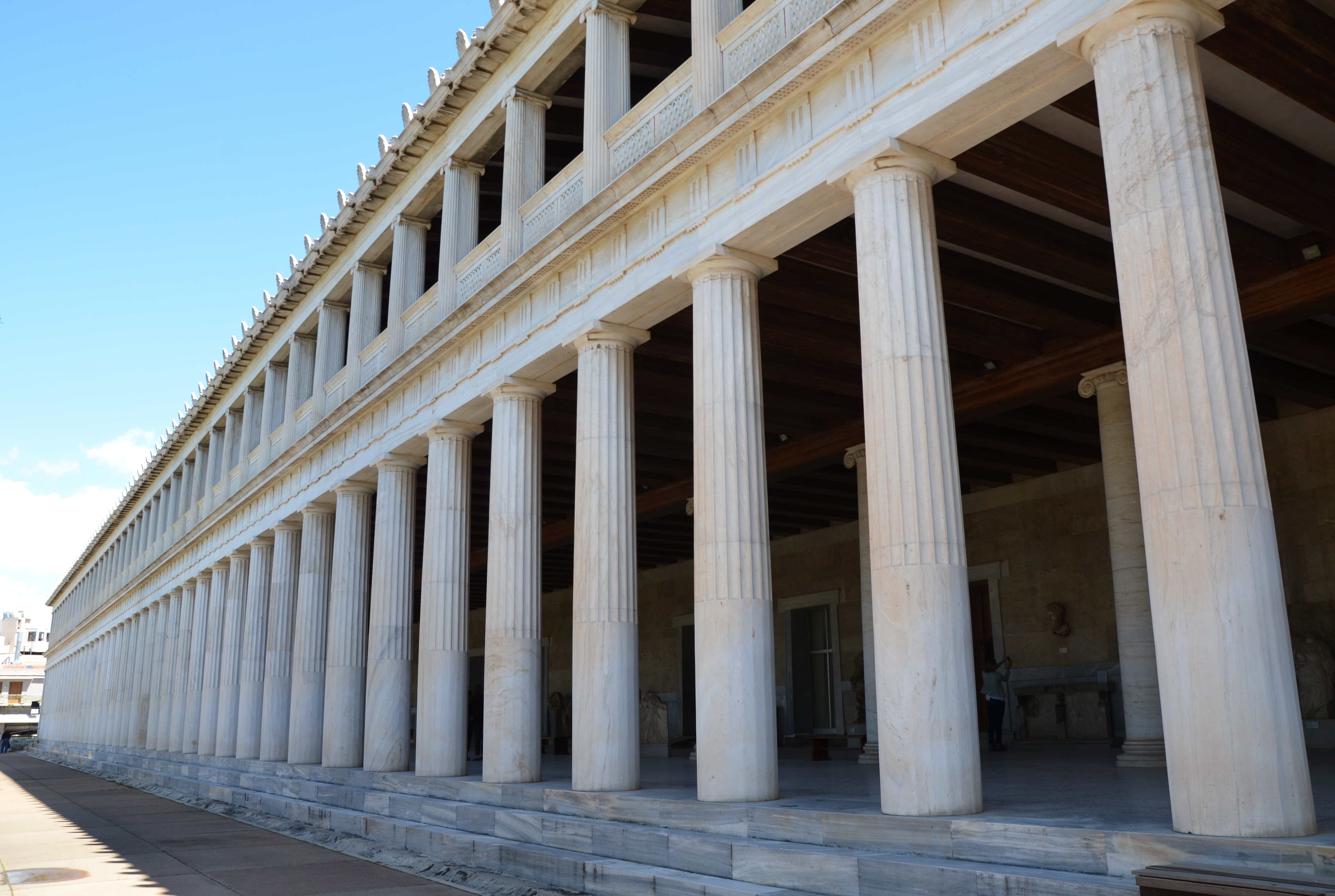 Stoa of Attalus, Ancient Agora of Athens